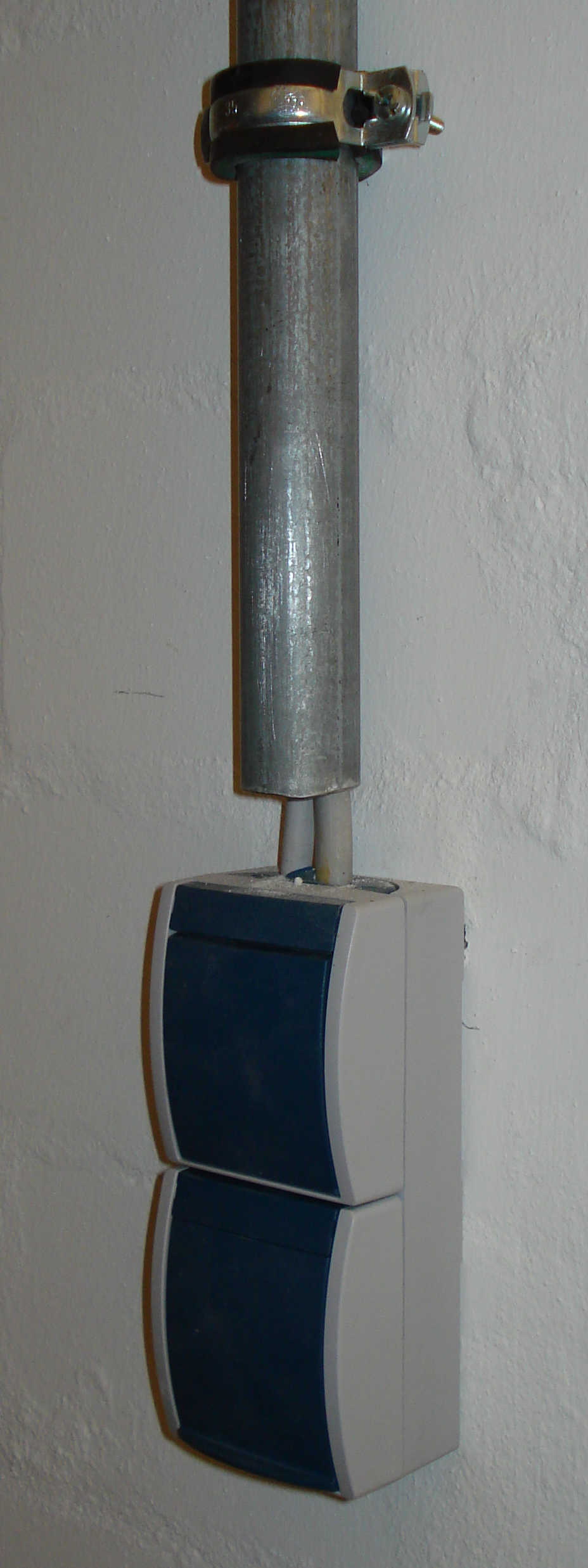 Surface mounting, protective pipe with clamps attached to the wall - with surface switch and socket. The light switch and Schuko socket both have IP44 covers, which protect against water. Both are installed 15cm from the door and 90 cm from the floor.